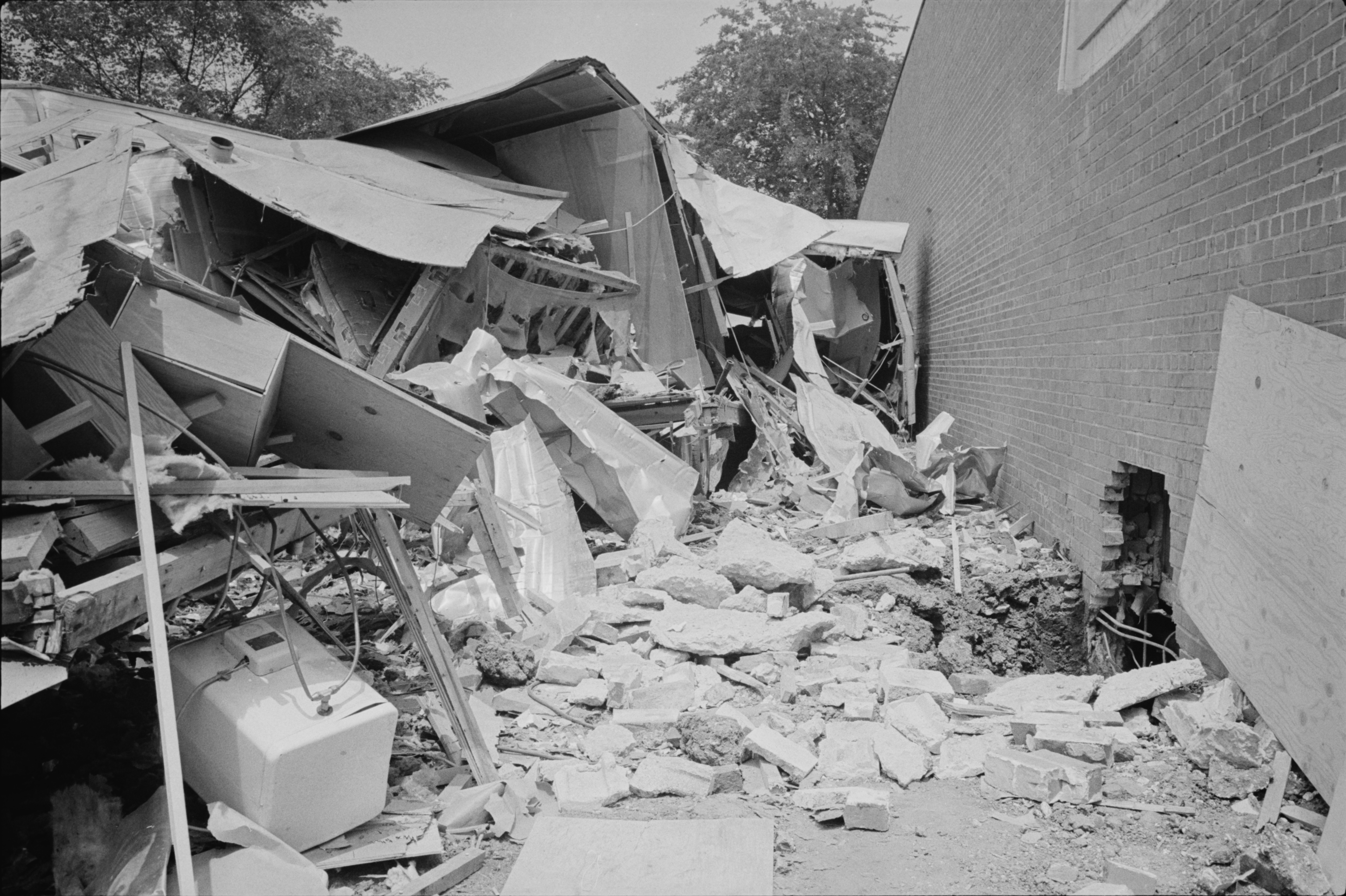 Photograph showing the wreckage of a bomb explosion near the Gaston Motel where Martin Luther King, Jr., and leaders in the Southern Christian Leadership Conference were staying during the Birmingham campaign of the Civil Rights movement.